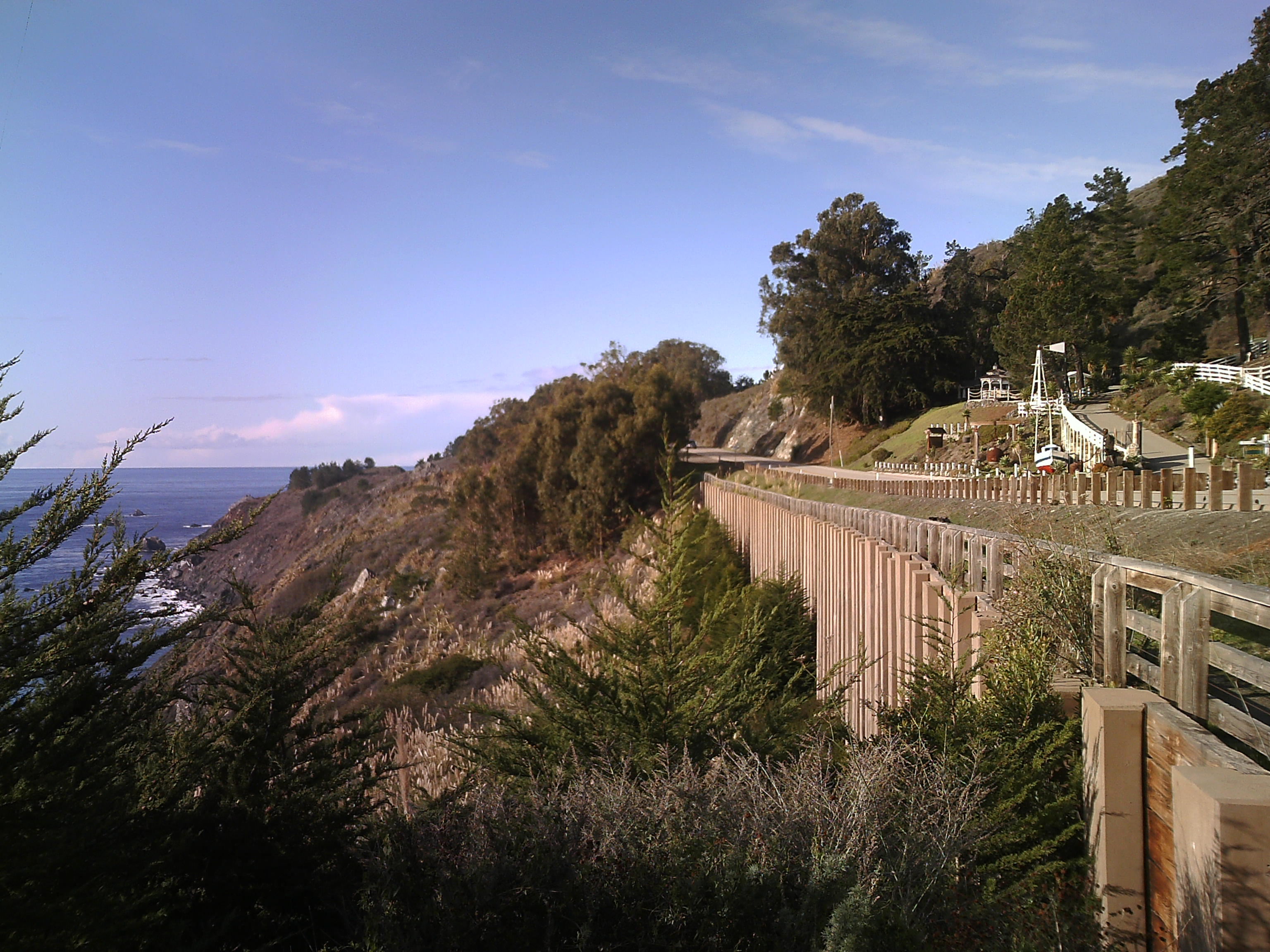 The California State Route 1 in the West Coast of the United States: Gorda - San Luis Obispo County, California.